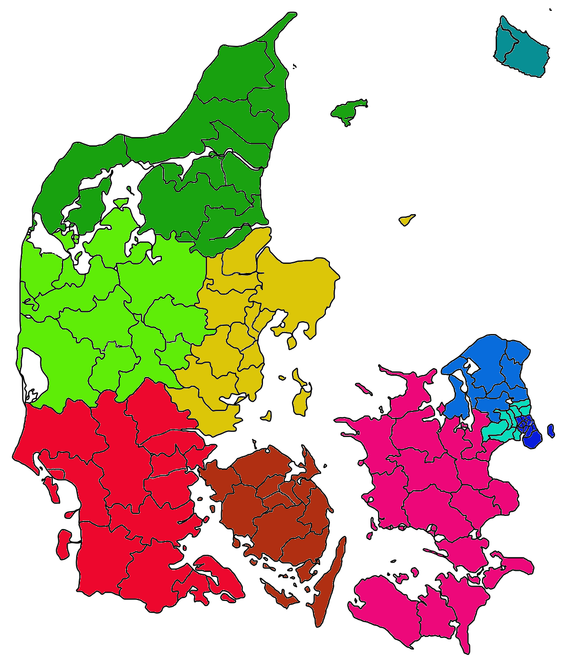 Danish constituencies